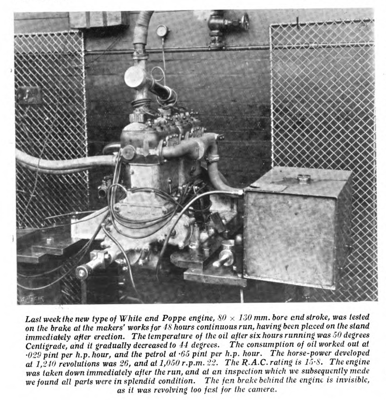 White and Poppe 2.6-litre engine on trial 1910